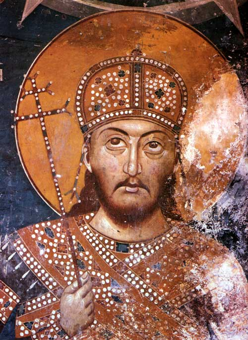 Serbian tzar Stefan Uroš IV Dušan of Serbia with his wife Jelena, middle of XIV century, monastery Lesnovo, Republic of Macedonia